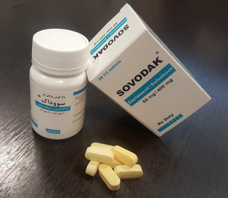 A combination pill of Sofosbuvir and Daclatasvir (Trade name Sovodak) used to treat hepatitis C